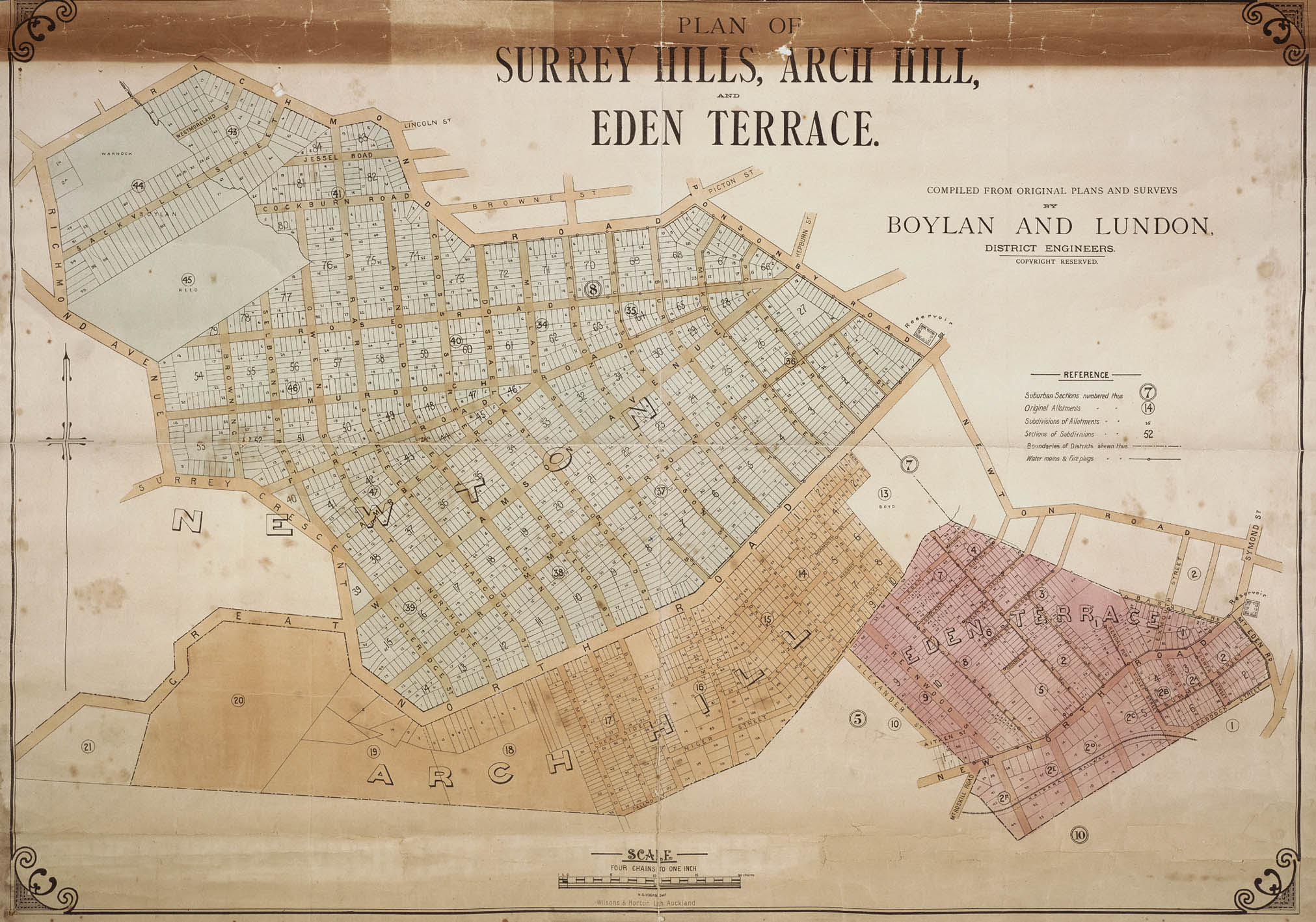 Allotments in [Eden Terrace], [Arch Hill] and Surrey Hills, with all the streets named